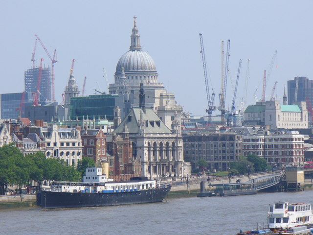 Northern side of Thames from HMS President to, its length east, Blackfriars Millennium Pier. Famous superimposed domes with pillars and top of front towers of St Paul's Cathedral visible and working cranes, taken from Waterloo Bridge. In front of this buildings foreground run, from left to right: a tripartite block including "50 Victoria Embankment", Sion Hall (red-brown façade with "organic/homespun" Jacobethan offset/non-aligned cream-dressed openings (lights)), 5 Tudor Street (gothic white with many slim green turrets) now or for a long time occupied by JP Morgan Chase and the Blackfriars Station precinct.